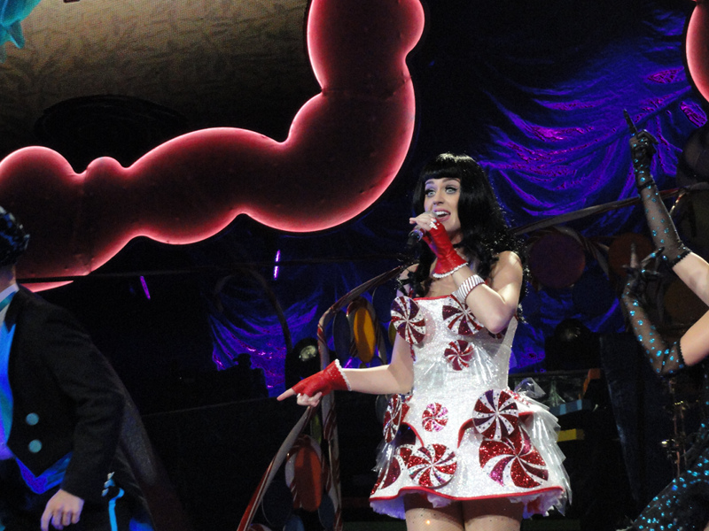 Katy Perry performing live in Seattle, WA in July 2011